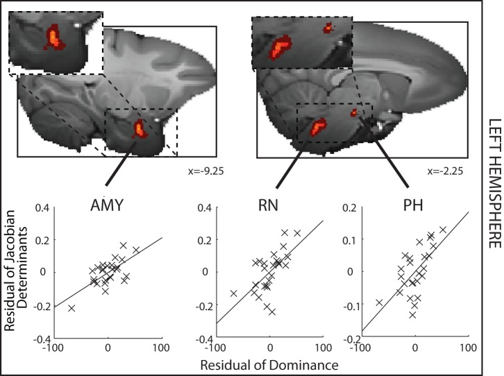 A significant positive correlation between GM and social status—dominance—is found in the AMY, PH, and adjacent lateral hypothalamus and RN and adjacent reticular formation. The determinant of the Jacobian matrix summarizes the size of the GM effect. For illustration purposes, partial correlations between the determinants of the Jacobian for each animal and for each ROI and dominance, after controlling for age, weight, sex, and number of structural scans, are shown. Spatially uncorrected effects (p 1.25 mm3) are indicated by light (yellow) colors, whereas the darkest red color indicates effects at p 5 mm3).